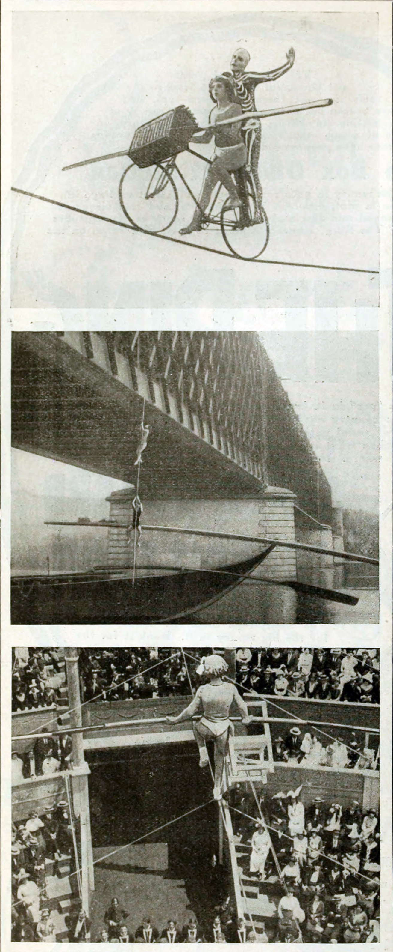 Advertisement in The Moving Picture World for The Jockey of Death, English title for the Italian film Il jockey della morte (1915).